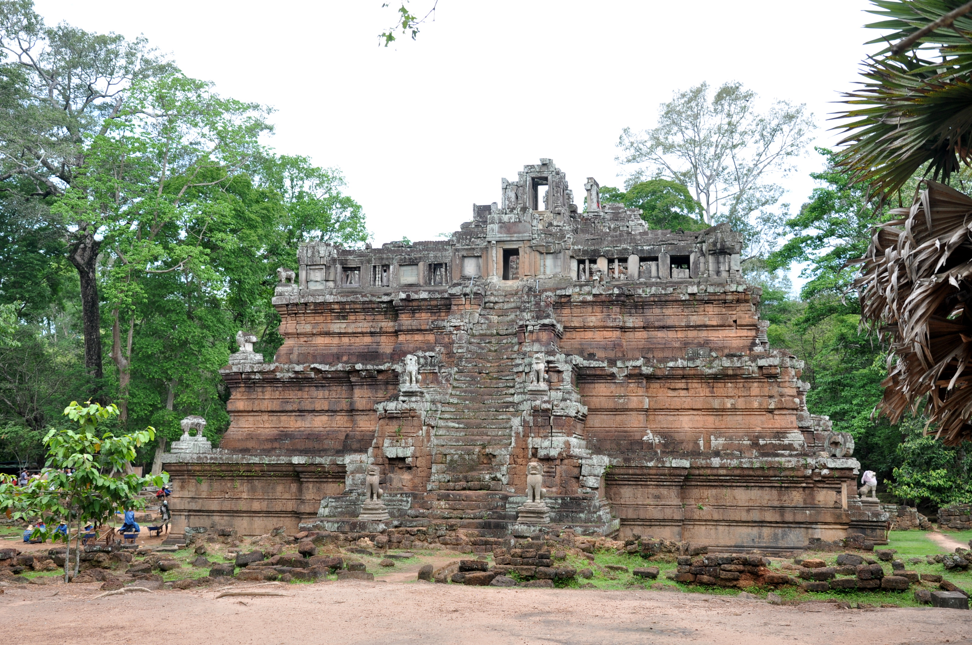 Phimeanakas, Ankor Thom, Siem Reap, Cambodia